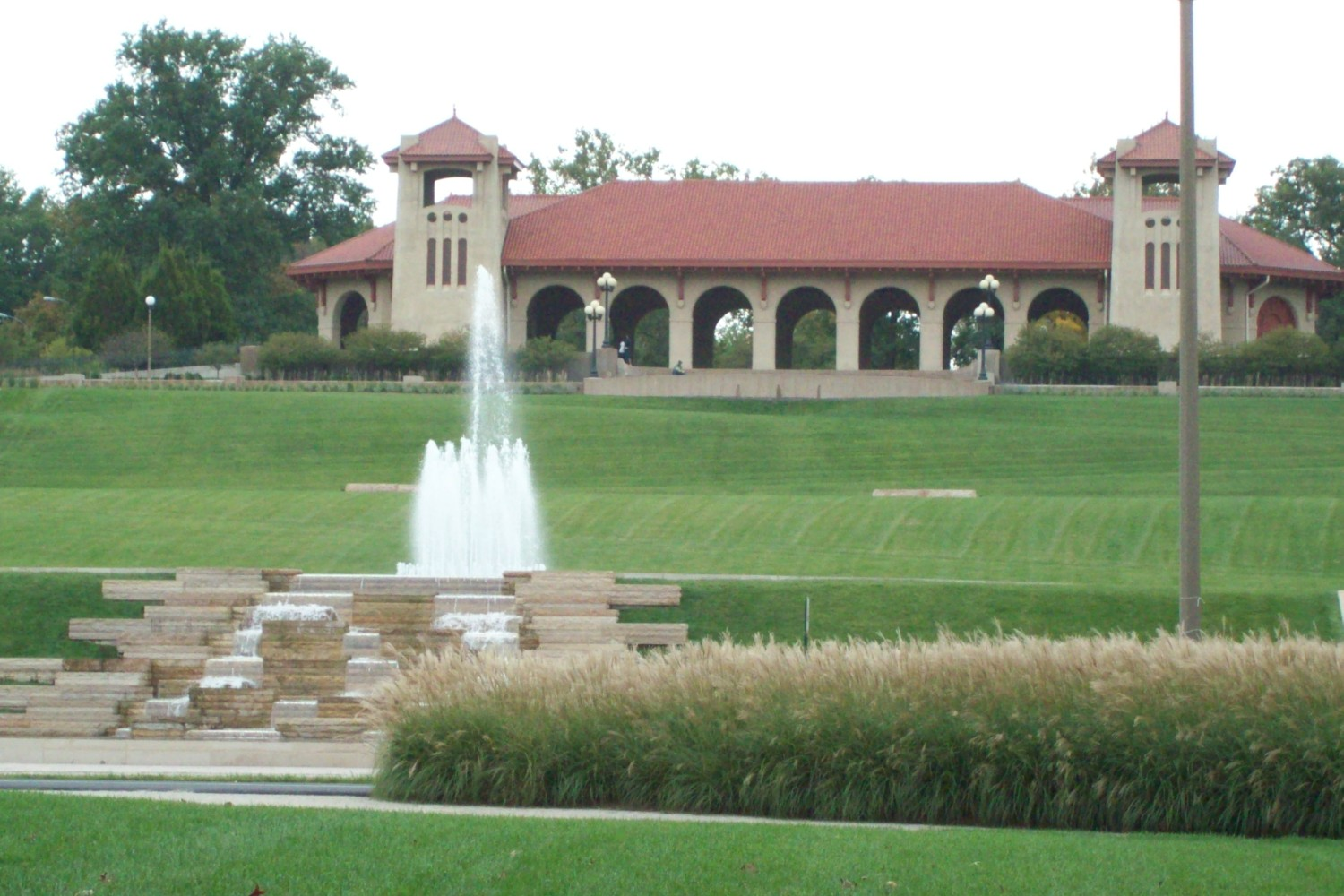 Government Hill in Forest Park in St. Louis, Missouri, U.S.A., showing the World's Fair Pavilion, completed in 1910.